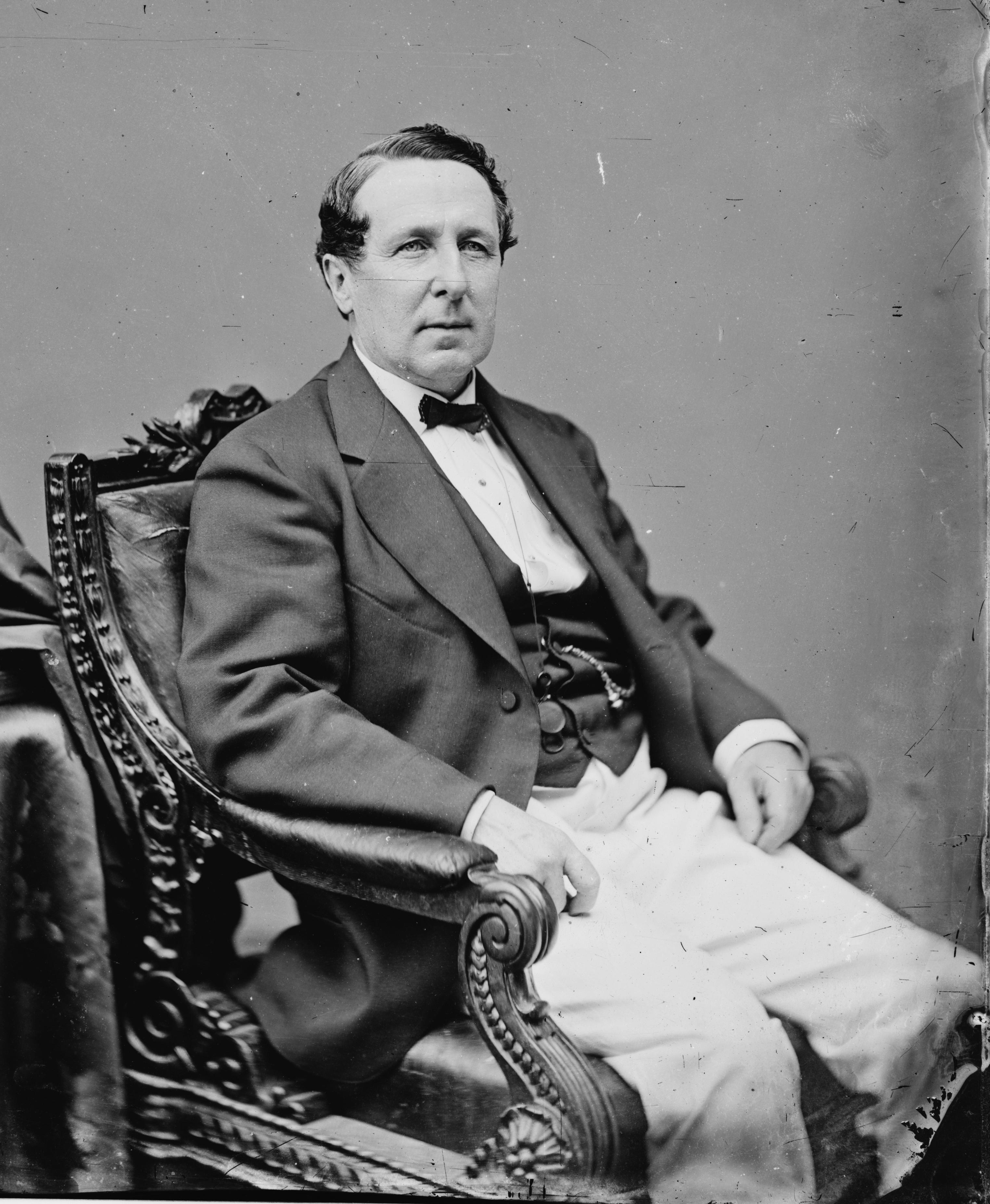 Charles O'Neill. Library of Congress description: "Hon. Charles O'Neill of Pa."